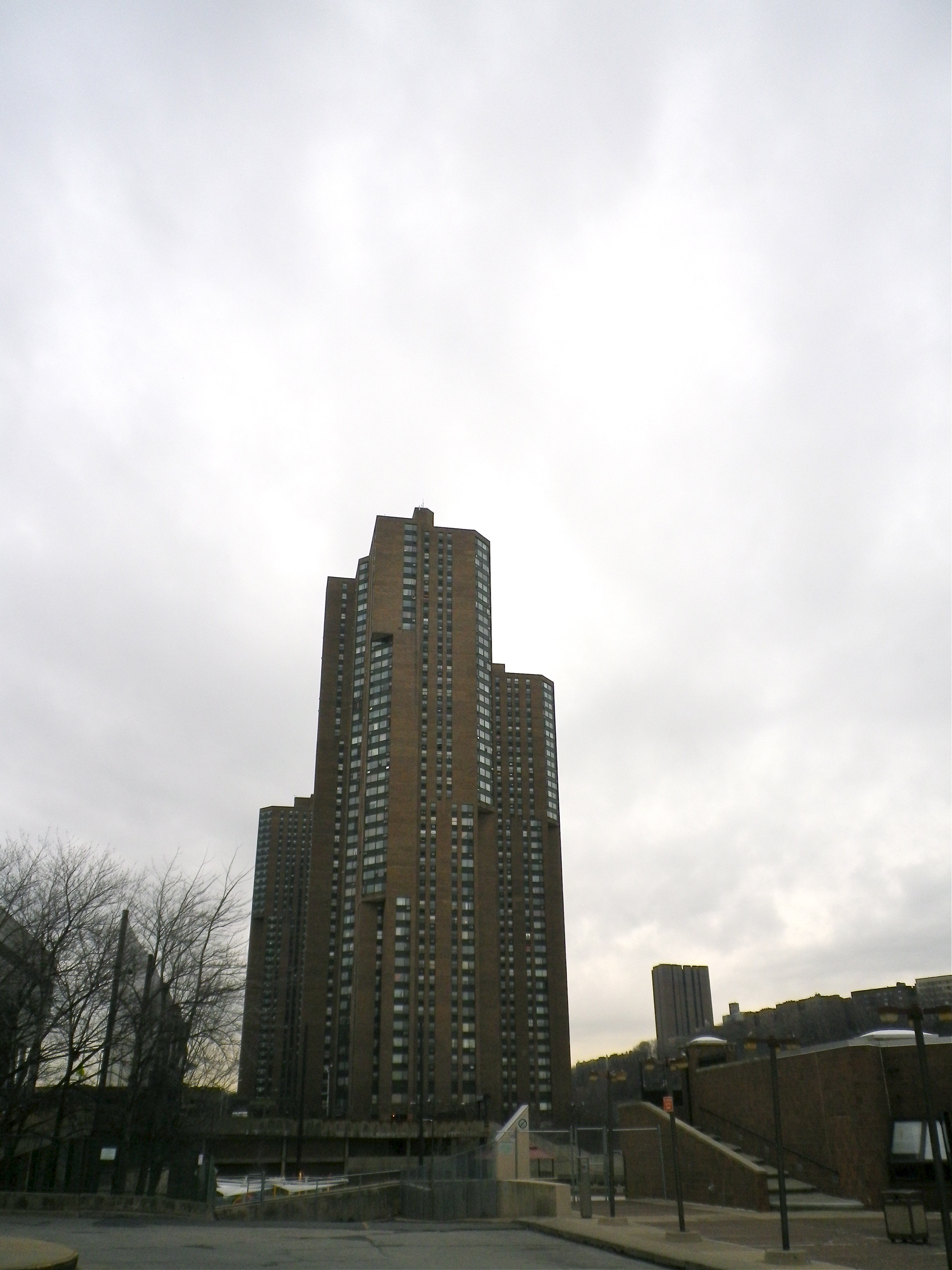 Riverside Towers